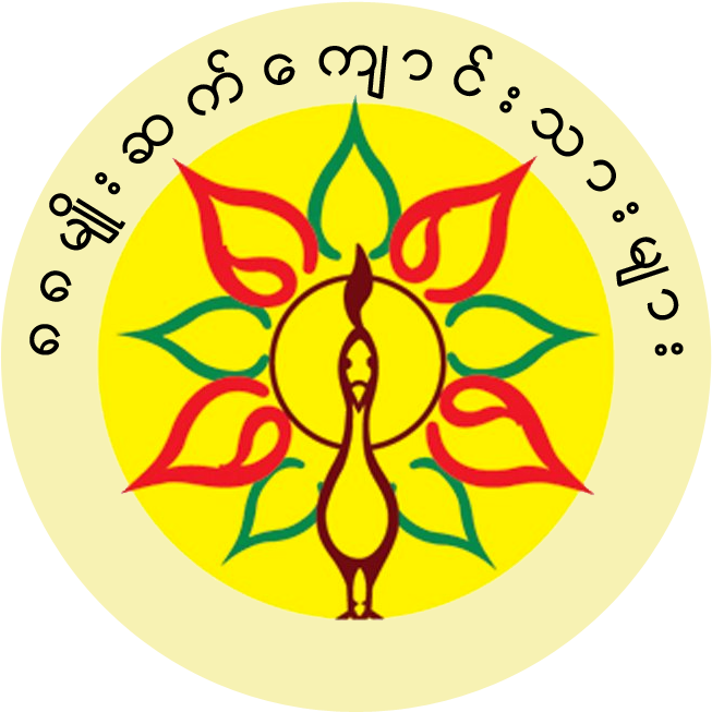 Official seal and logo of the 88 Generation Students Group မြန်မာဘာသာ: ၈၈ မျိုးဆက် ကျောင်းသားများတံဆိပ်